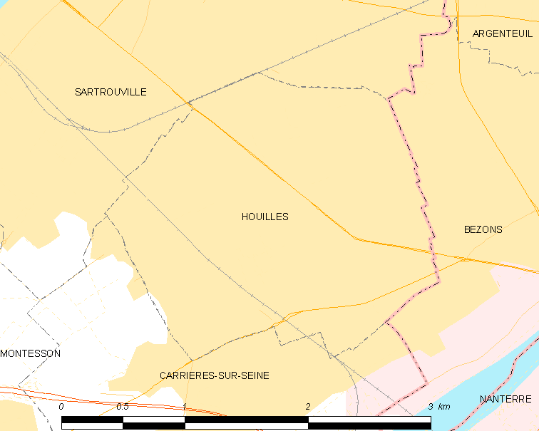 Map of French municipality Houilles